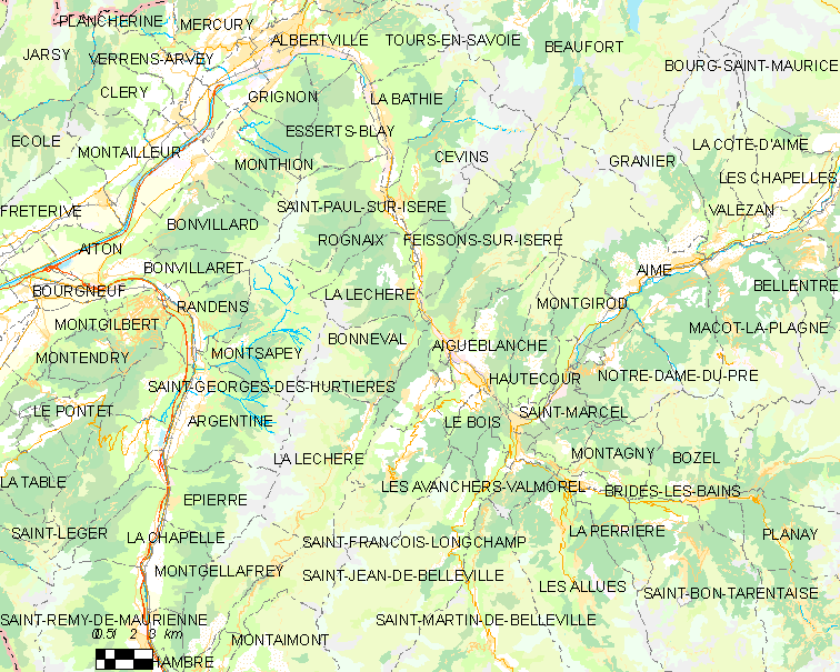 Map of French municipality